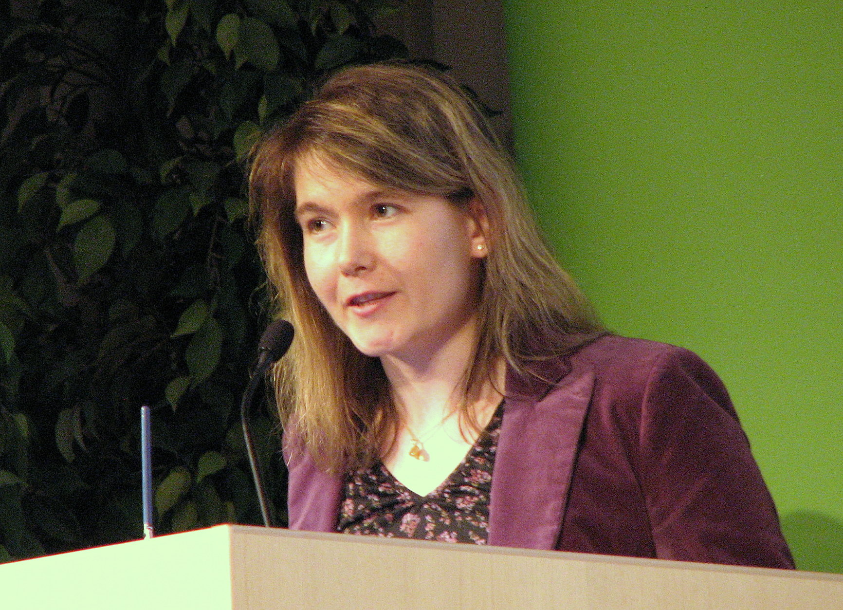 Johanna Karimäki, a Finnish green politician, speaking at the 2007 party convention of Green League.